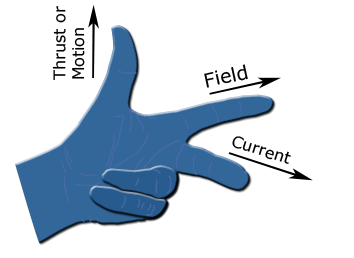 A drawing of a left hand illustrating Fleming's left hand rule